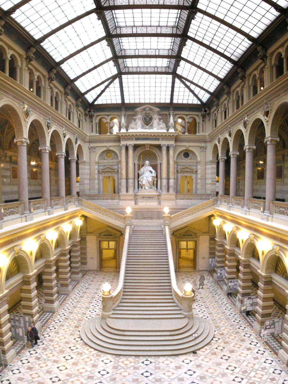 Interior of the Justizpalast in Vienna.